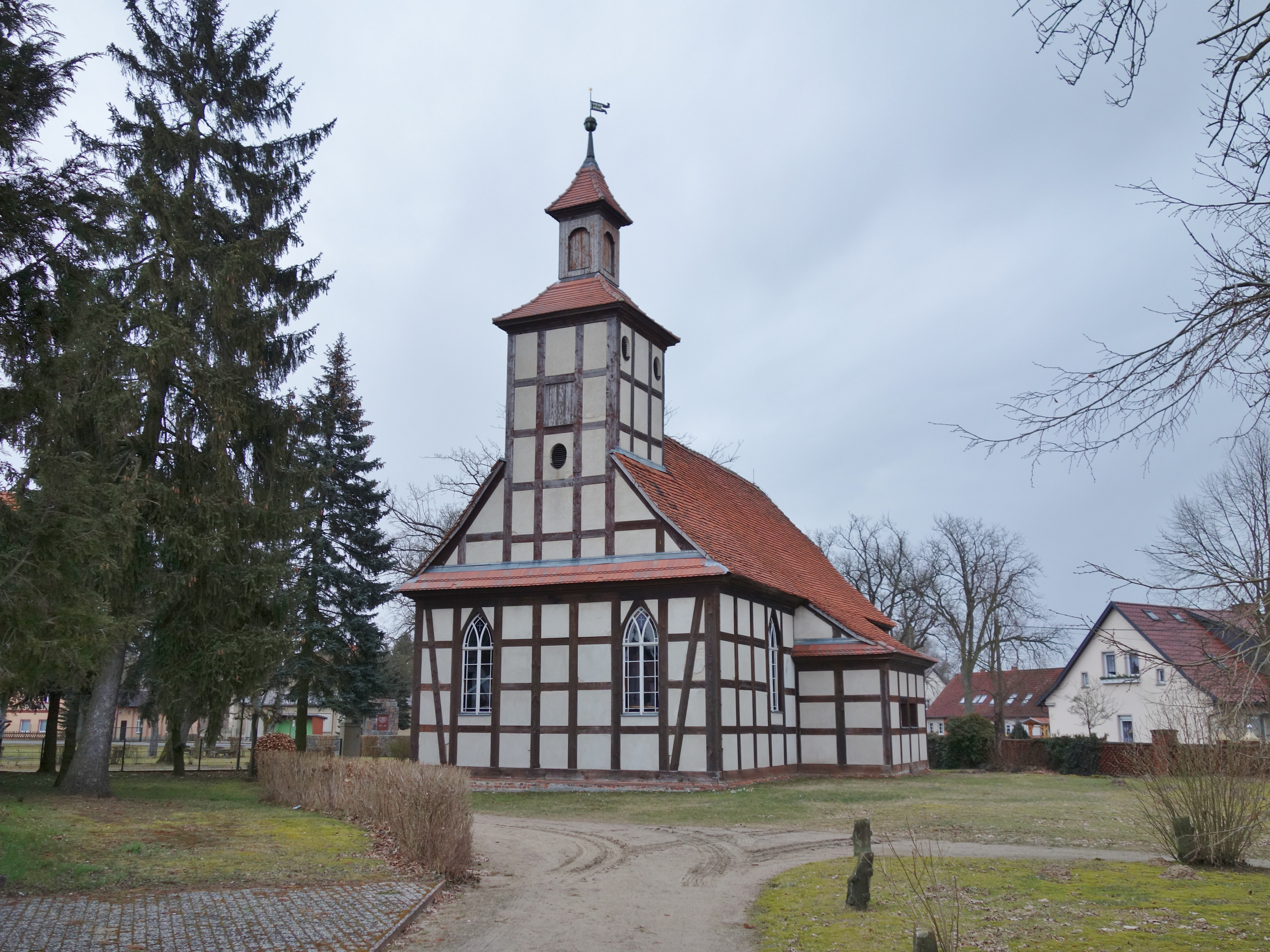 West-south-western view of the church in Fretzdorf , Wittstock/Dosse municipality , Ostprignitz-Ruppin district, Brandenburg state, Germany.